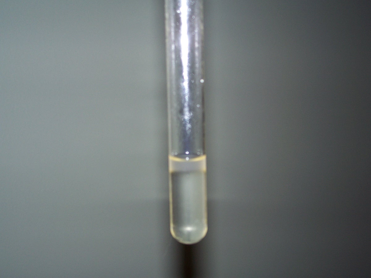 A picture of liquid chloroform synthesized by Yamakiri, contained in a glass test tube